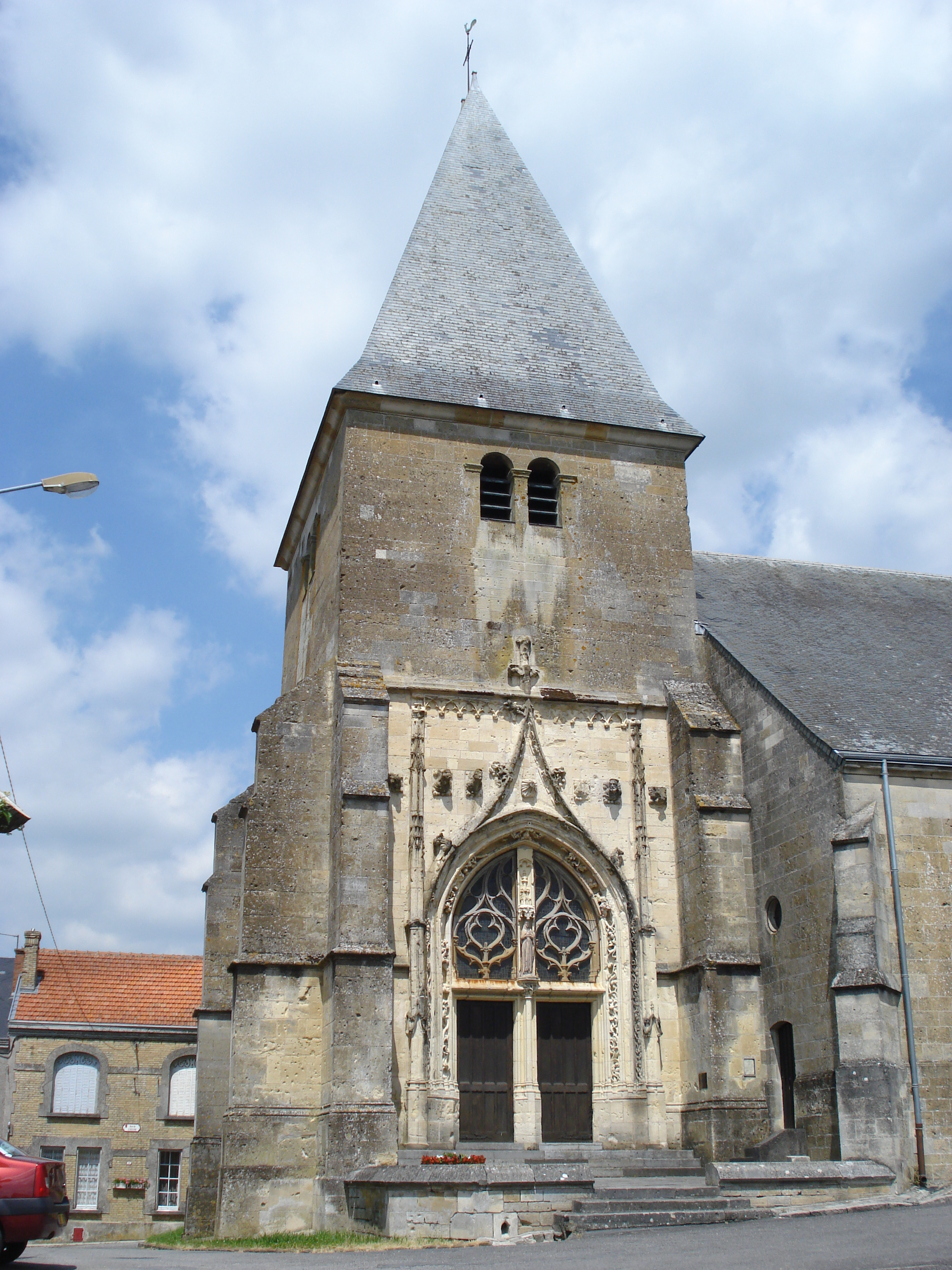 Voncq (Ardennes) église, porche et tour